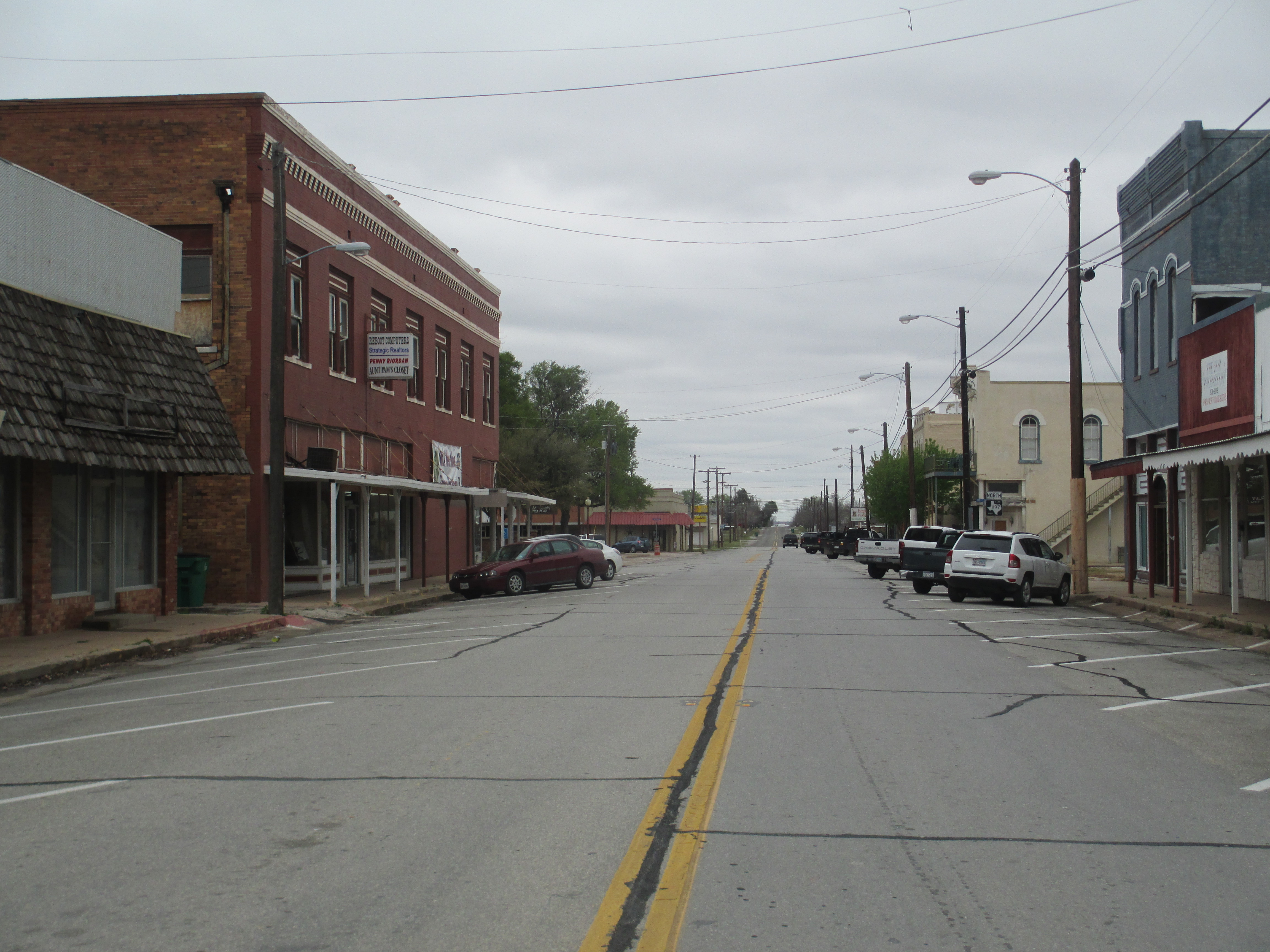 I took photo of a portion of Henrietta, TX, with Canon camera, April 4, 2013.Billy Hathorn (talk) 23:31, 11 April 2013 (UTC)